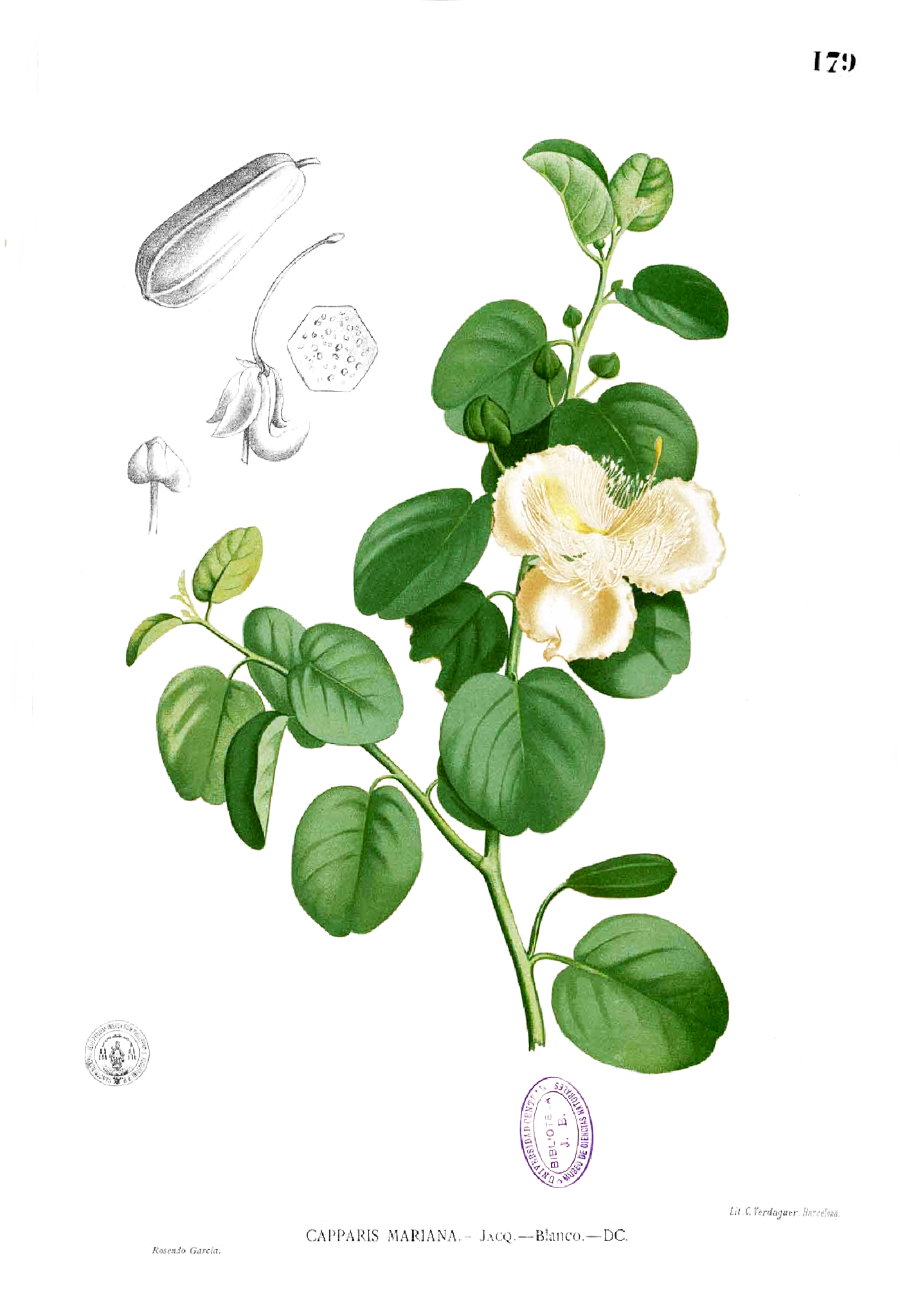 Plate from book